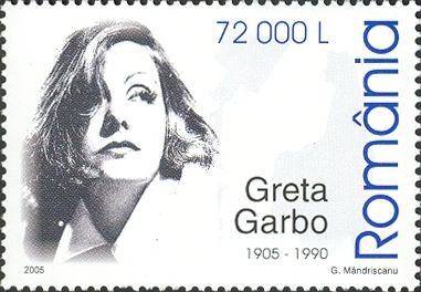 Stamps of Romania, 2005